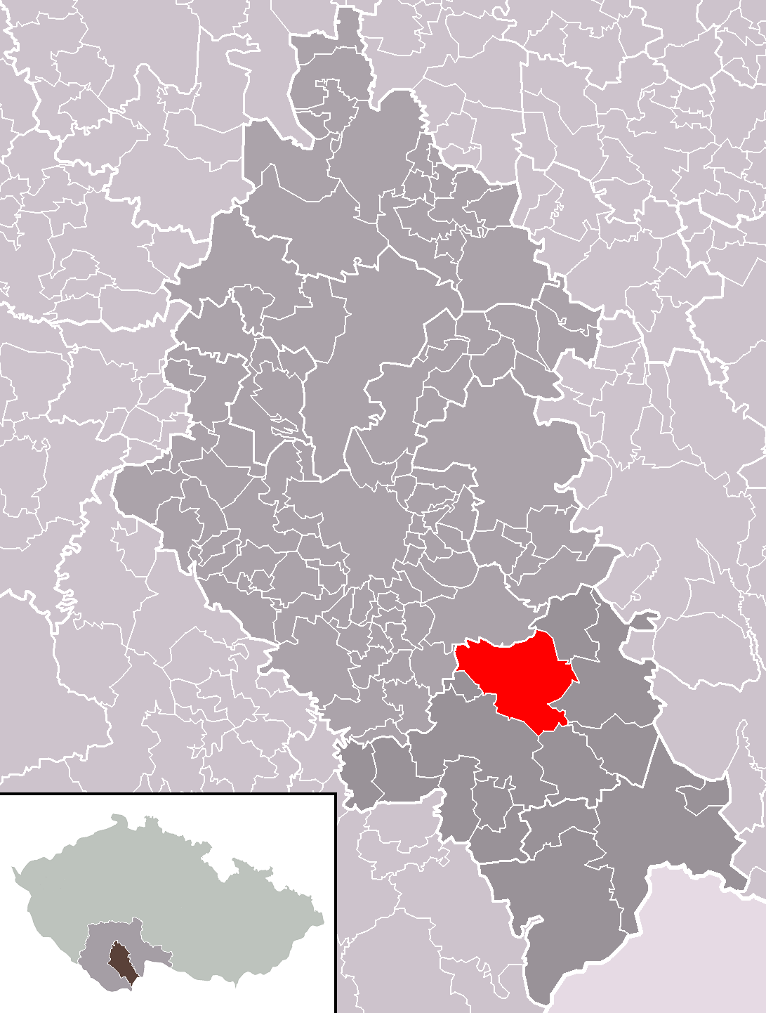 Location of Borovany town within České Budějovice District and administrative area of Trhové Sviny as a Municipality with Extended Competence.